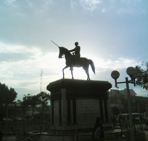 تمثال البطل أحمد عرابى قائد الثورة العرابية (أمام محطة القطارات) بالزقازيق